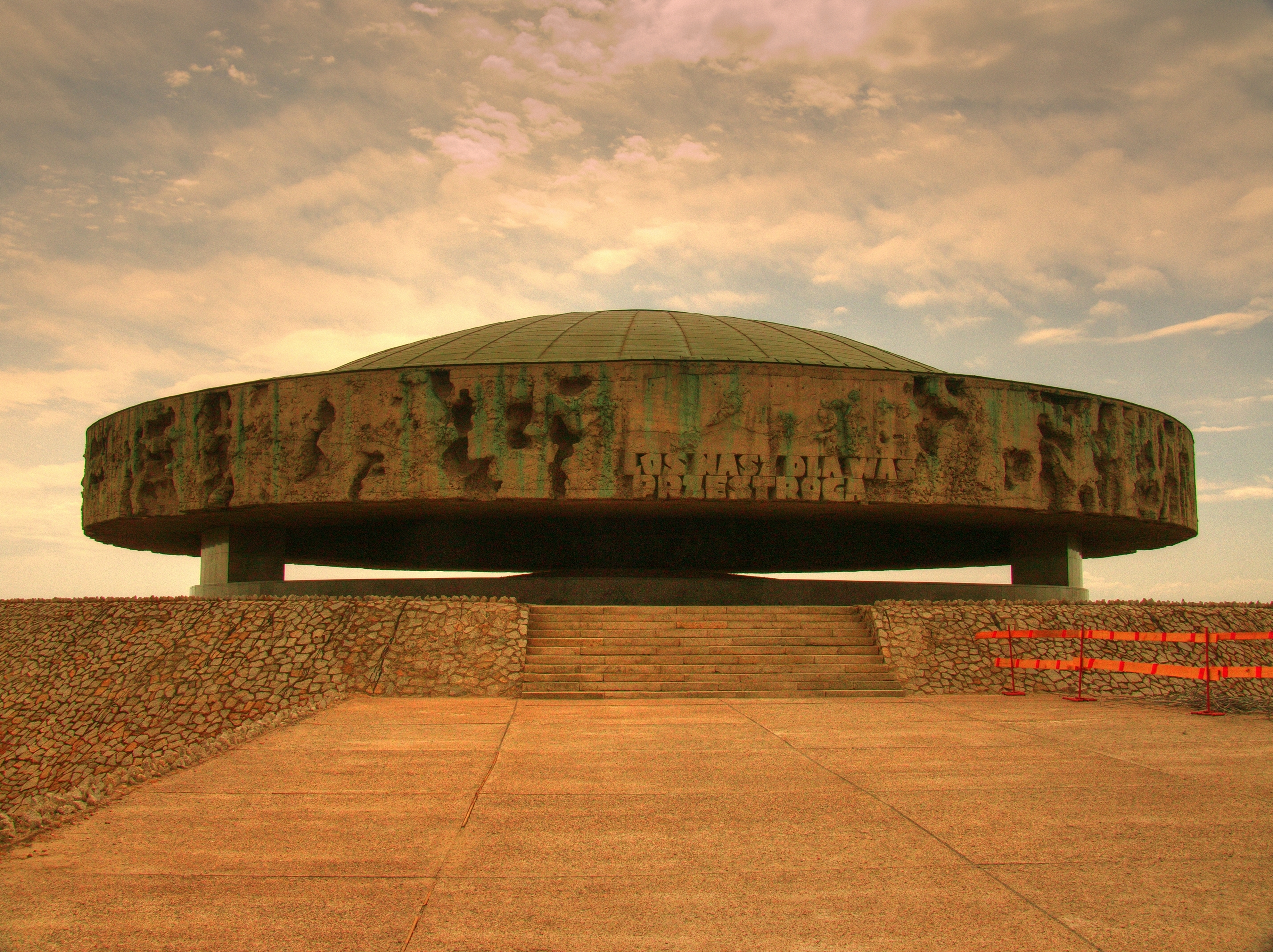 Majdanek mausoleum dome, covering the ashes of the murdered and cremated prisoners.